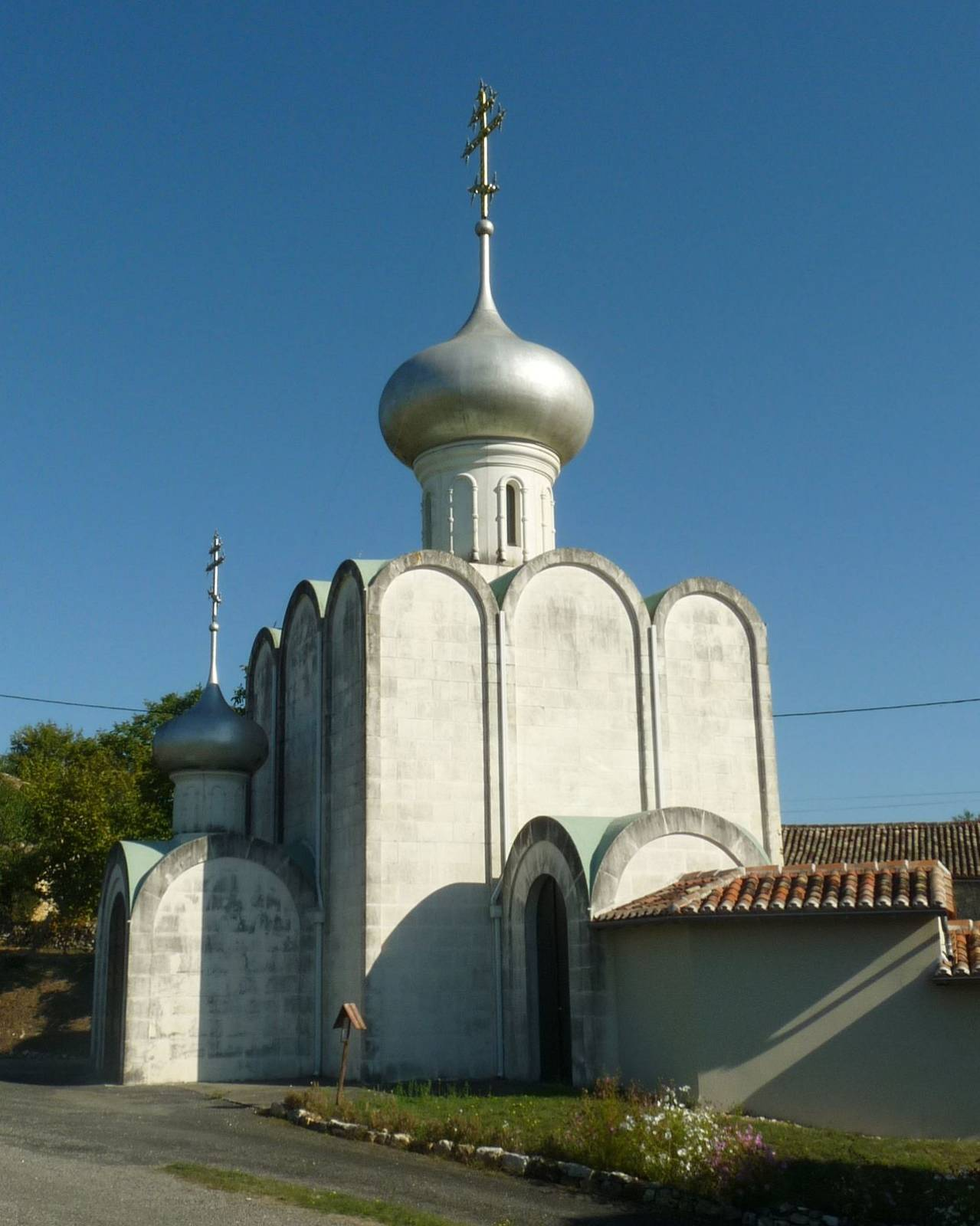 orthodox church of Grassac, Charente, SW France